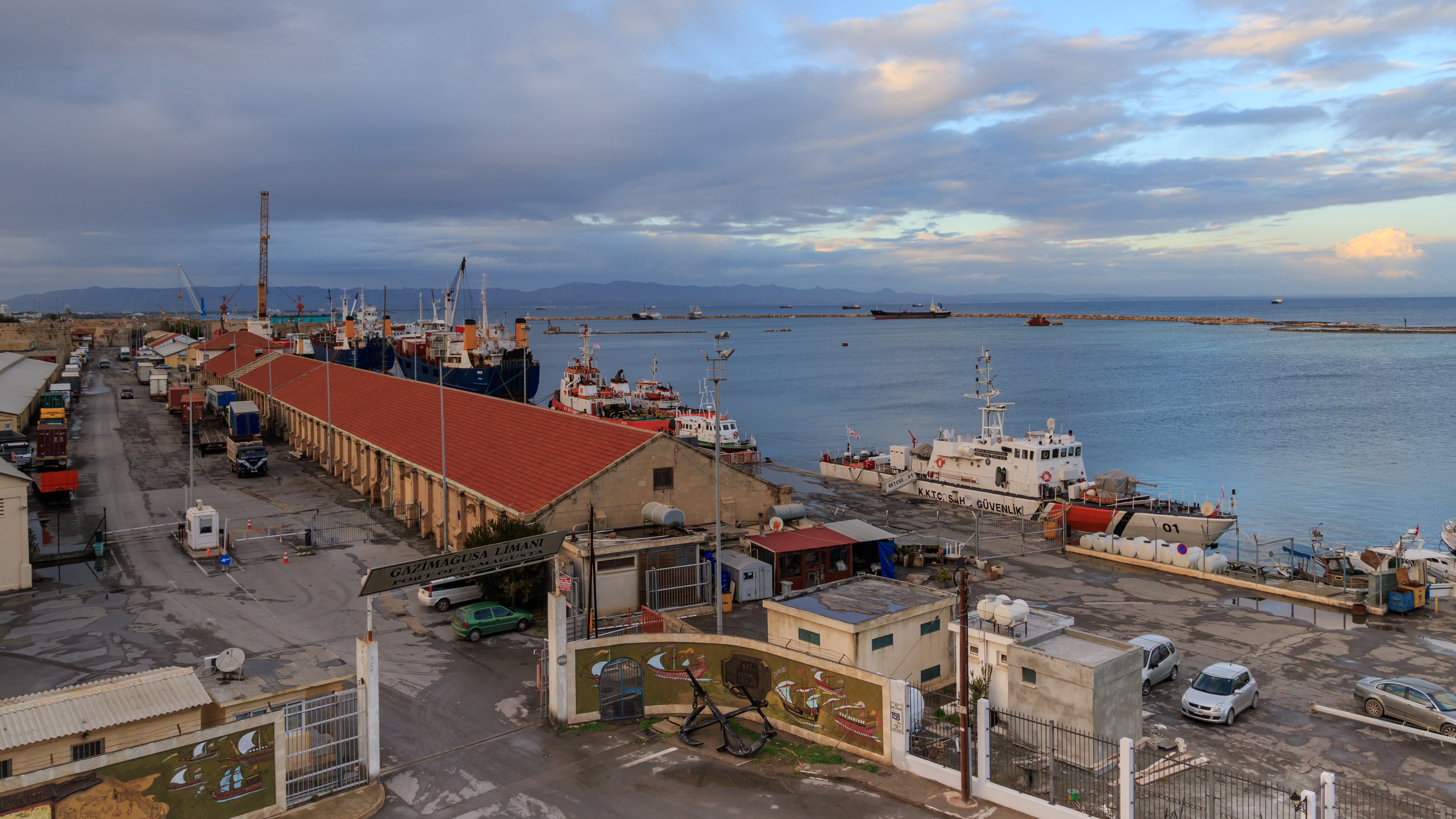 View of the sea port from the Arsenal Bastion of the city wall in Famagusta, Cyprus